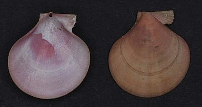 Palliolum tigerinum (Müller, 1776), Pectinidae, Bivalvia, Mollusca, Naturalis Biodiversity Center - ZMA.MOLL.12333